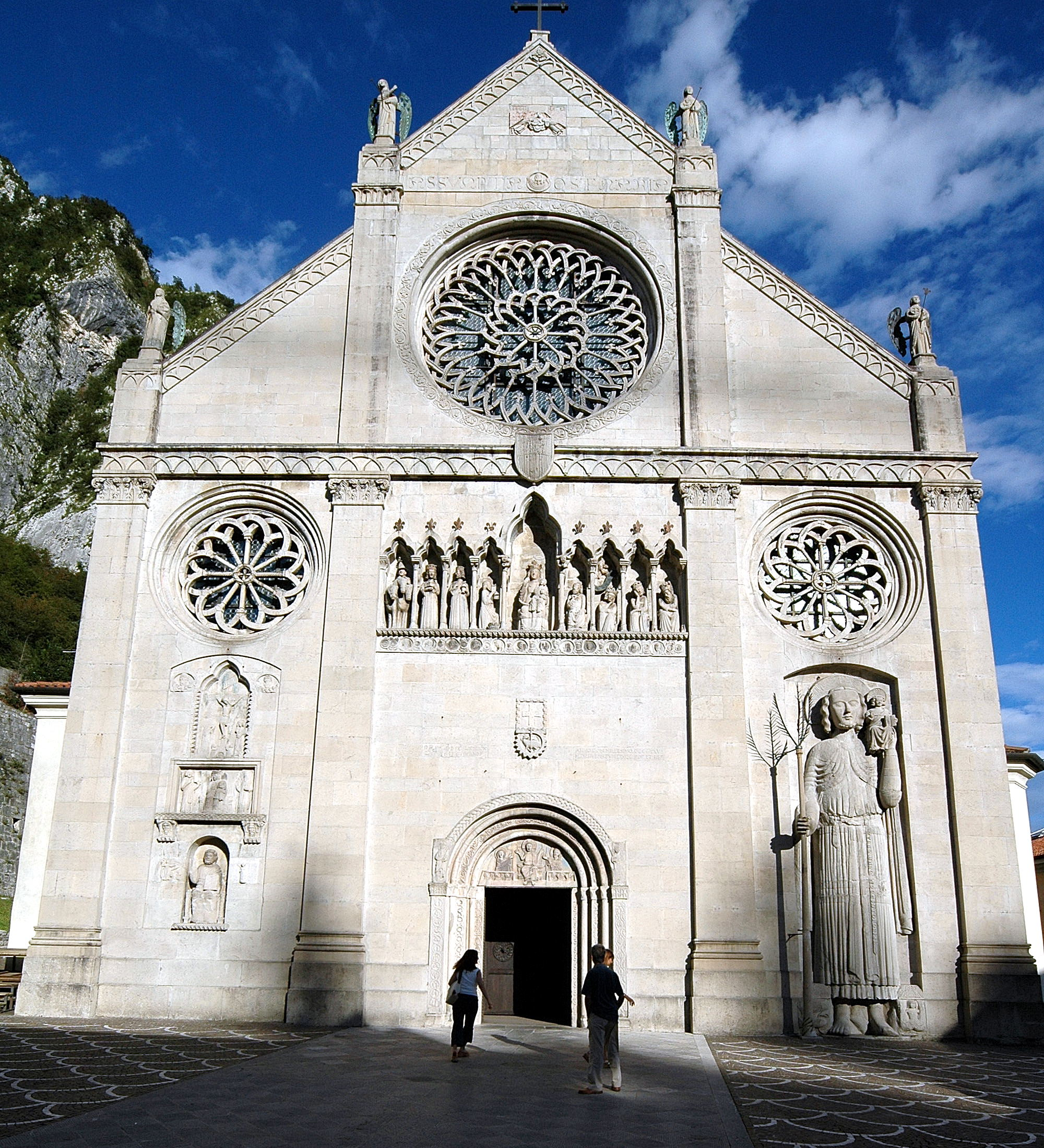 Front of the cathedral Ascension of Mary in Gemona, municipality Gemona, province Udine, Friuli, Italy